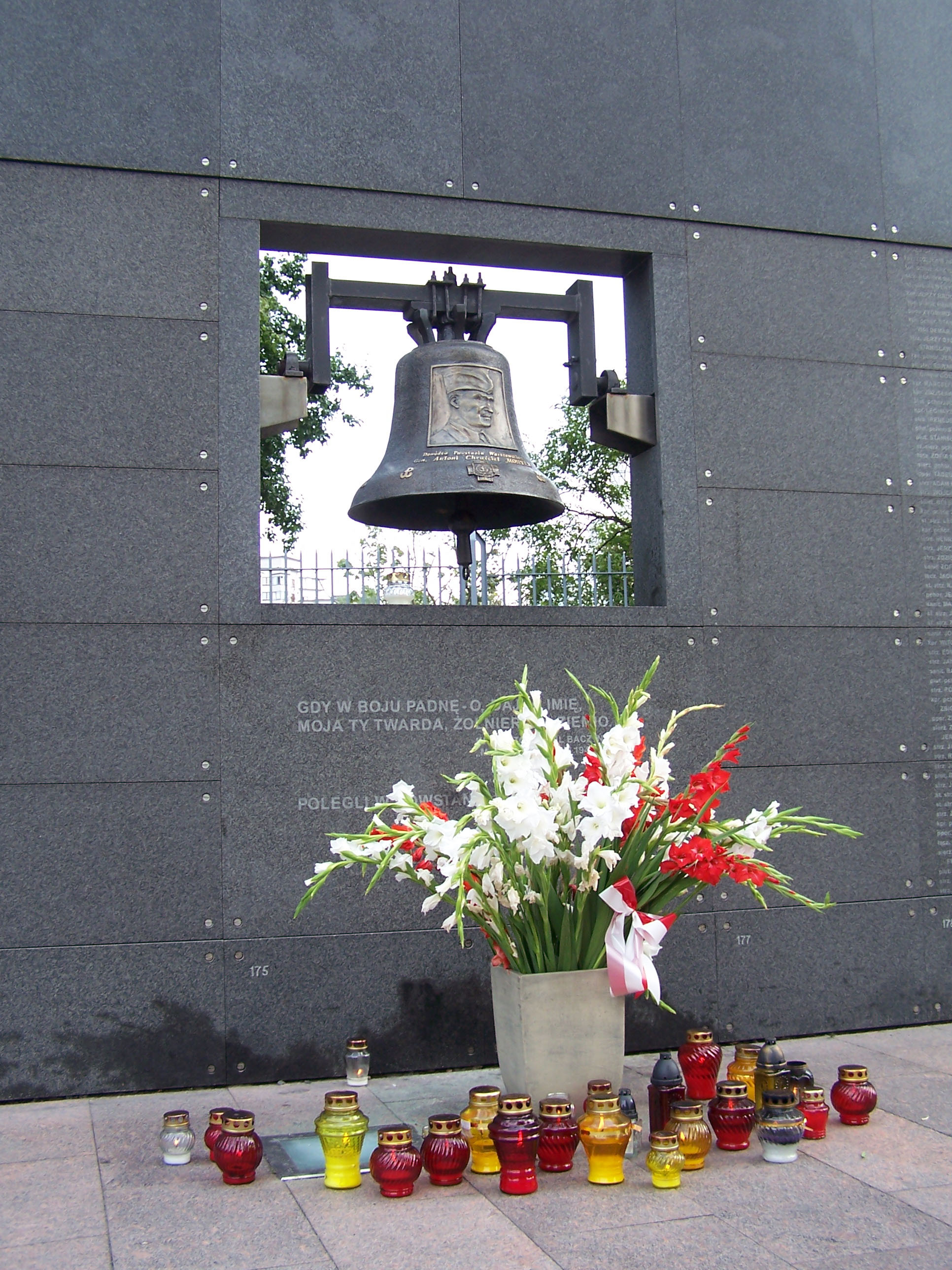 Gen. Antoni Chruściel bell at the memorial wall at the Warsaw Uprising Museum in Warsaw, Poland